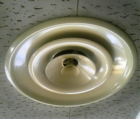 Ceiling mounted air diffuser